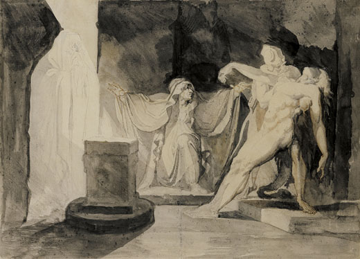 The Witch of Endor Raising The Spirit of Samuel. Pen and watercolour on paper, 283 x 423 mm